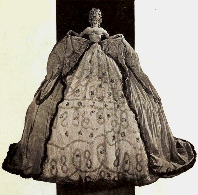 Lillian Lorraine in the revue "Ziegfeld Girls of 1920," on page 7 of the June 1920 The Tatler, text removed from image.